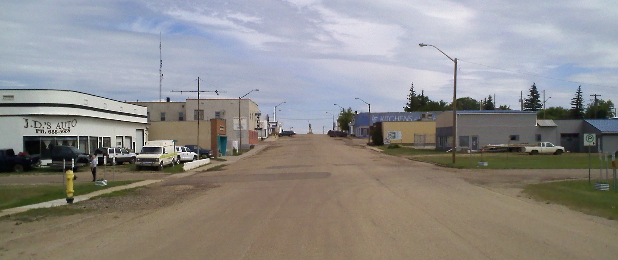 50 (Main) Street, Holden, Alberta, from its CN Rail crossing.